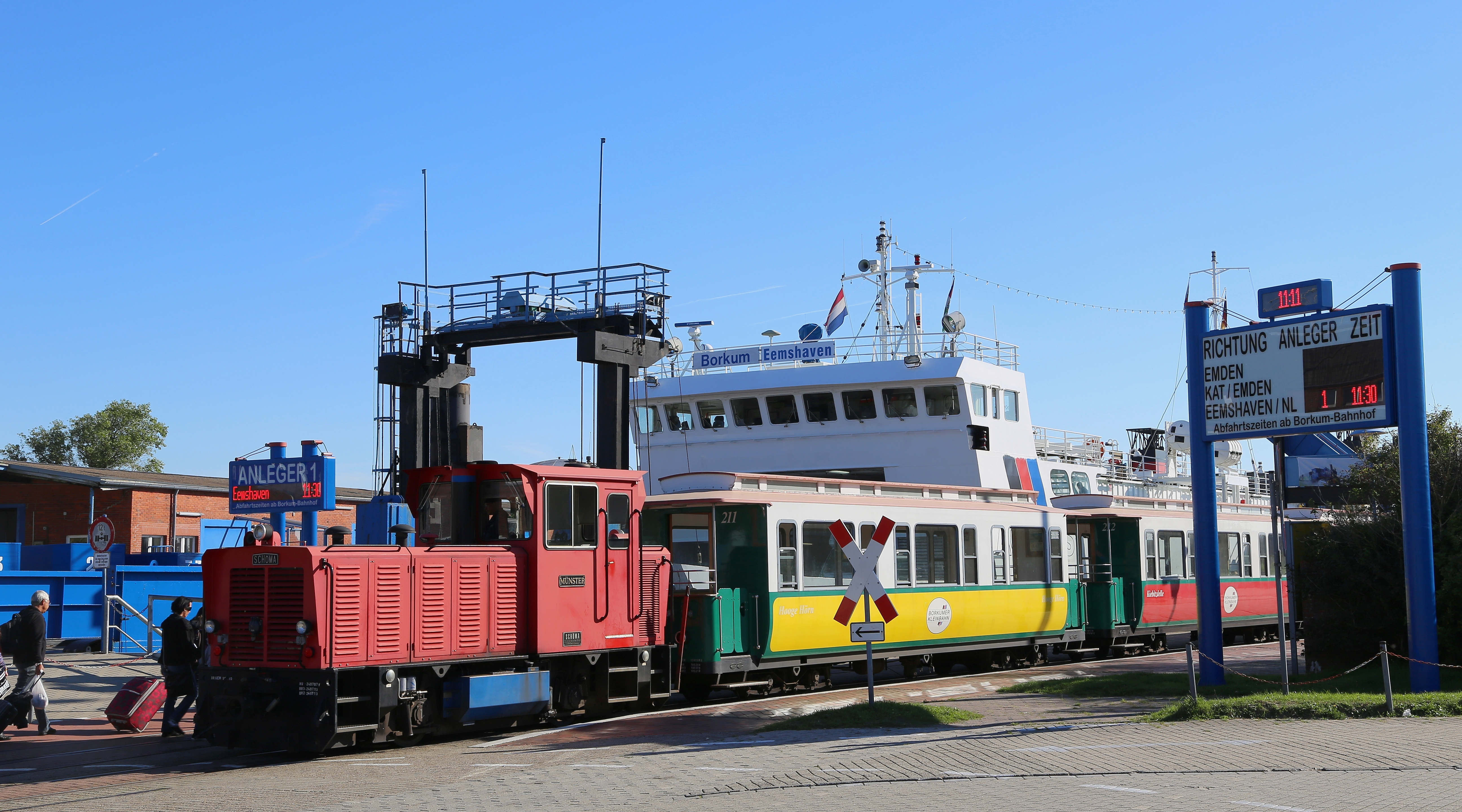 The Borkumer Kleinbahn at Borkum harbour station (Bahnhof „Reede“) in Borkum-Reede, Landkreis Leer, Lower Saxony, Germany. This narrow gauge railway line is a listed cultural heritage monument.